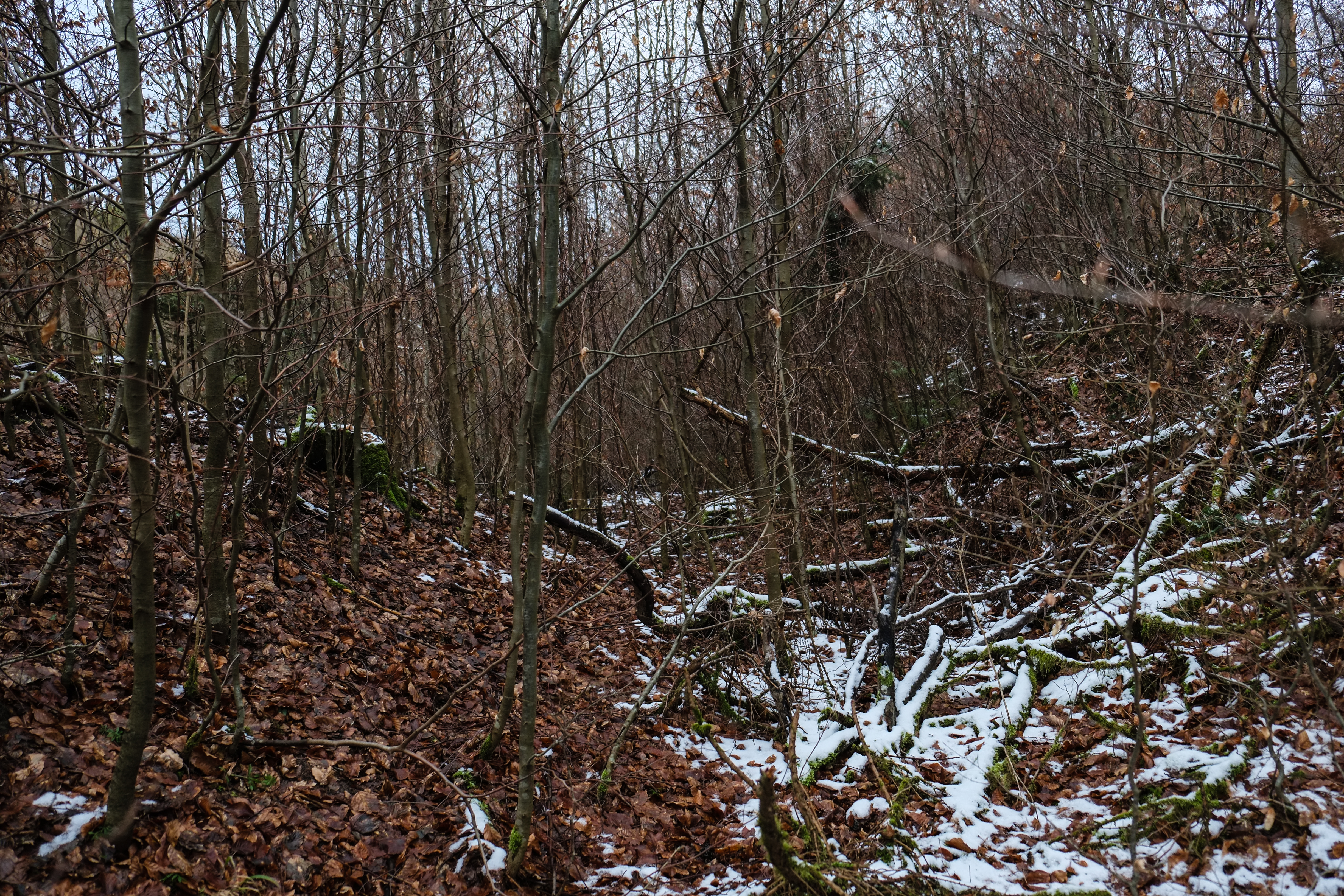 Remains of the lost castle Burg Bermatingen near Bermatingen, county Bodenseekreis, Baden Wurttemberg, Germany